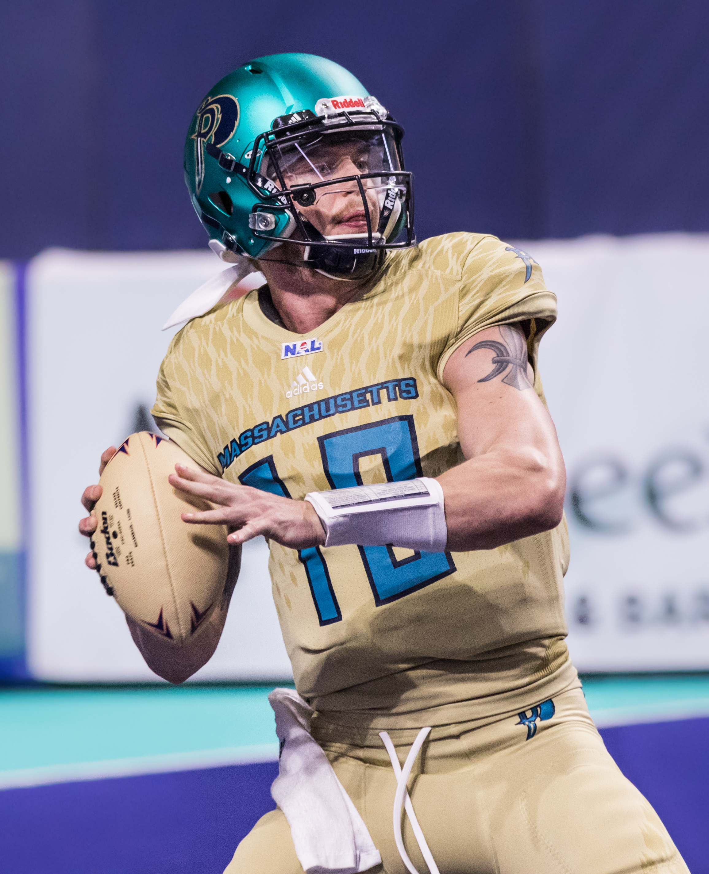 Sean Brackett during the Pirates Season 2 Home Opener on April 13, 2019